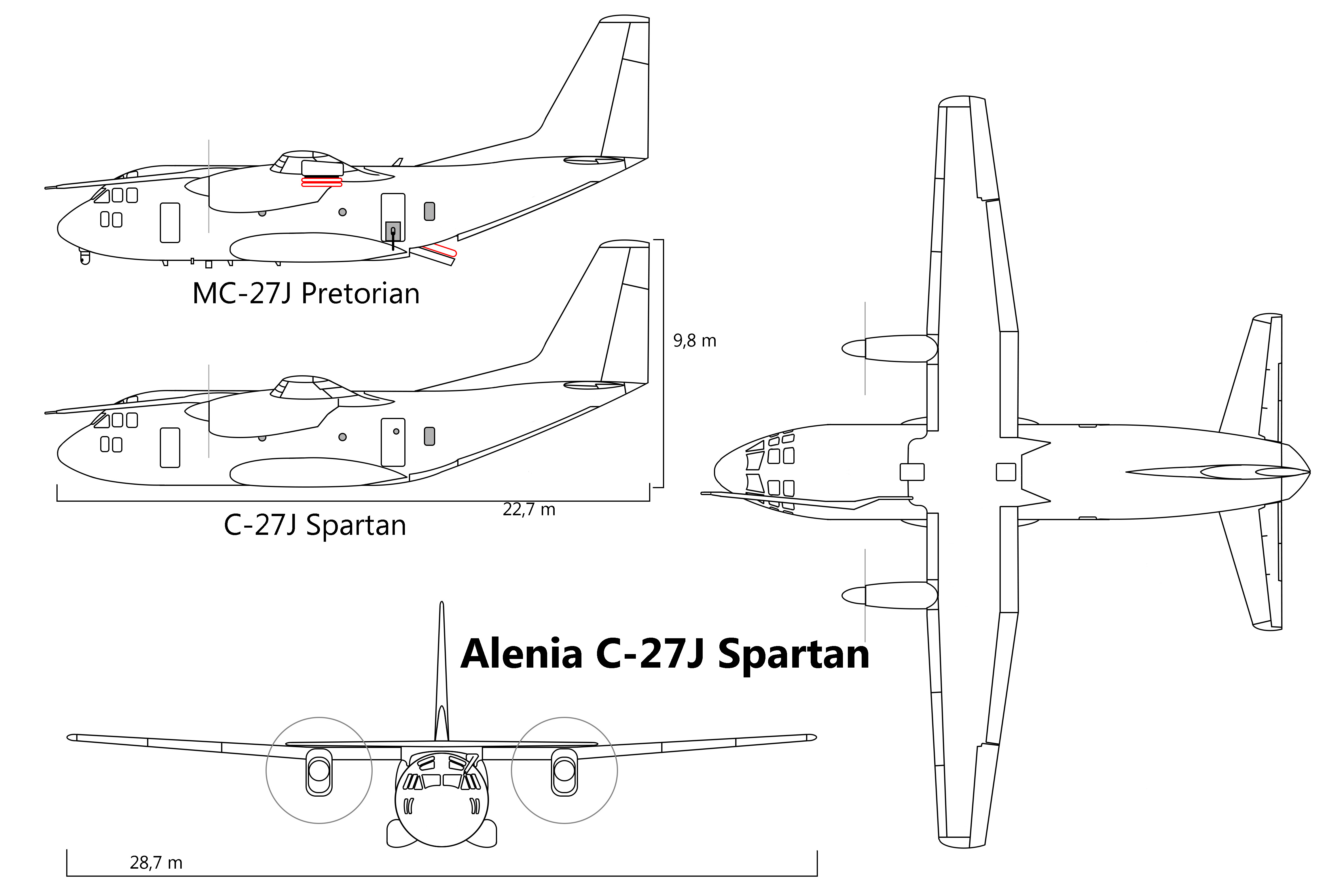 Leonardo C-27J Spartan drawing lines.